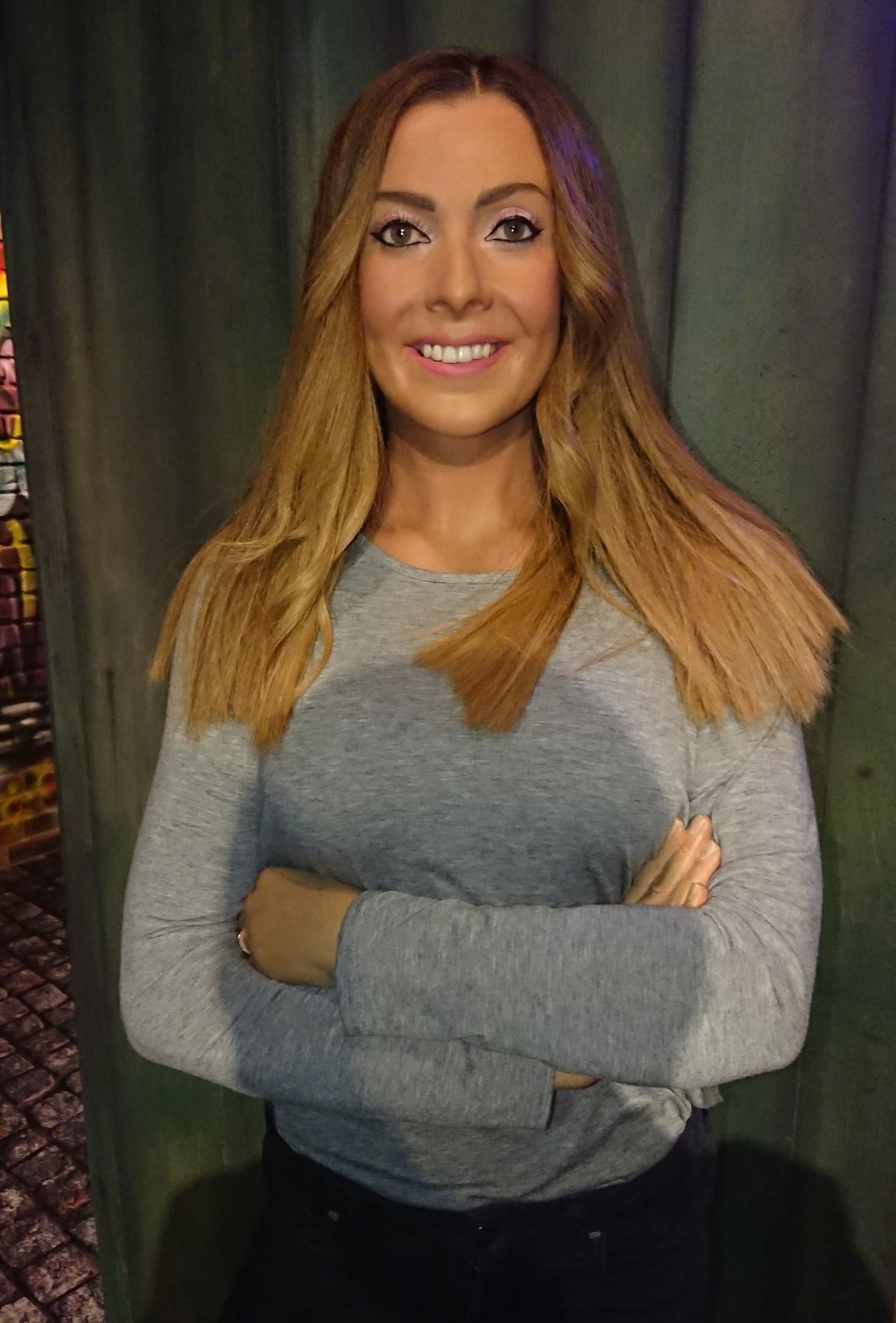 Kym Marsh posing as a Michelle Connor waxwork at Madame Tussauds in Blackpool, Lancashire - 2018